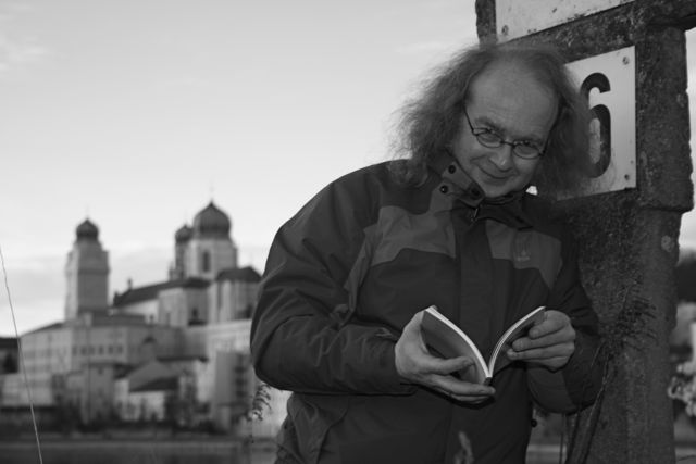 The writer Friedrich Hirschl